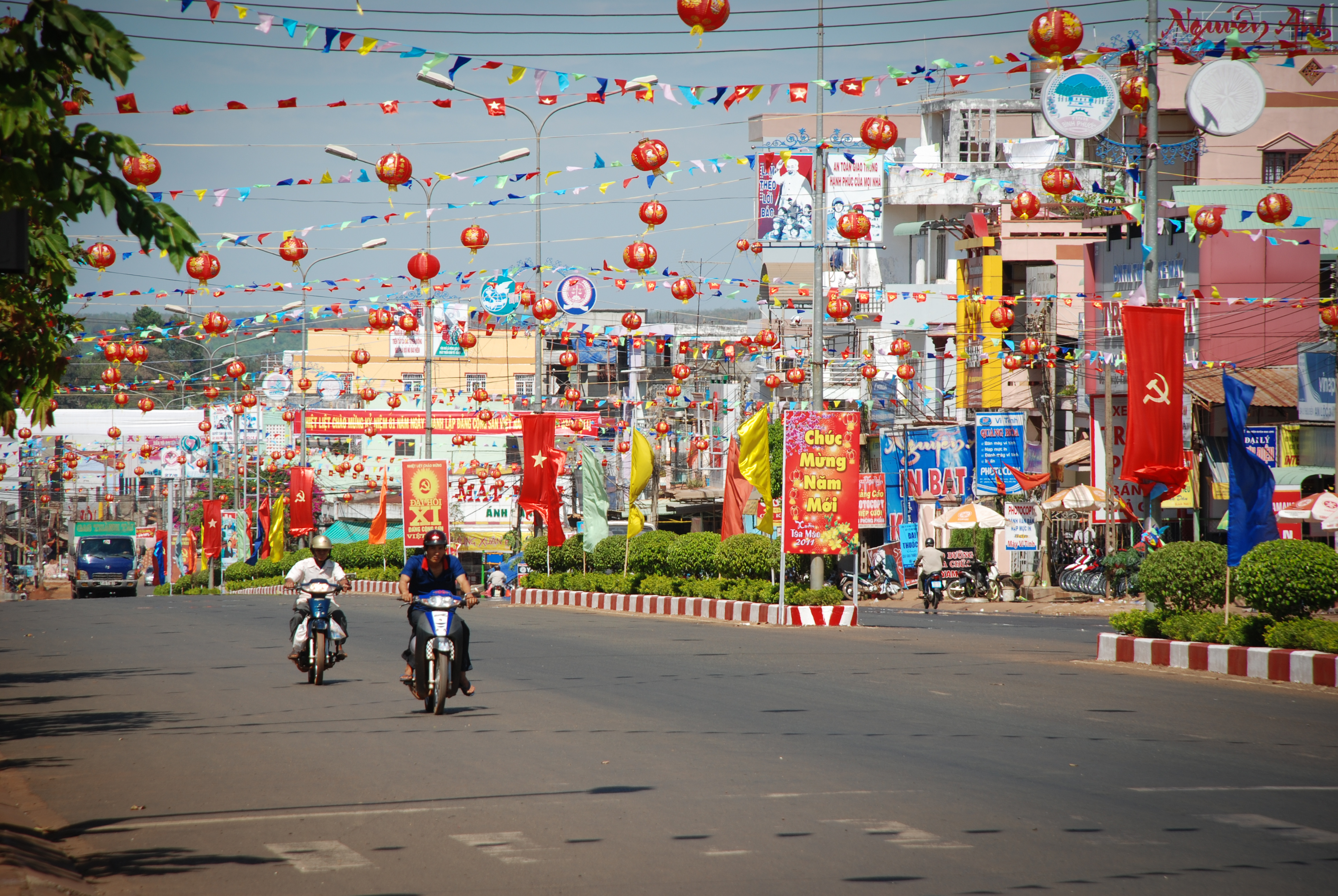 Binh Long town, Binh Phuoc province, Vietnam